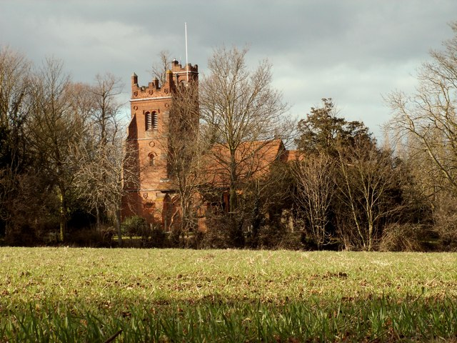 All Saints church, Inworth, Essex. Hemmed in by trees and only viewed from the south during the winter months, Inworth church has stood here since Norman times. The beautiful brick tower and porch were built in 1876.